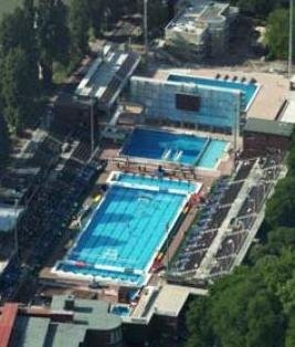 Margitsziget, Budapest, Hungary, aerialphotography